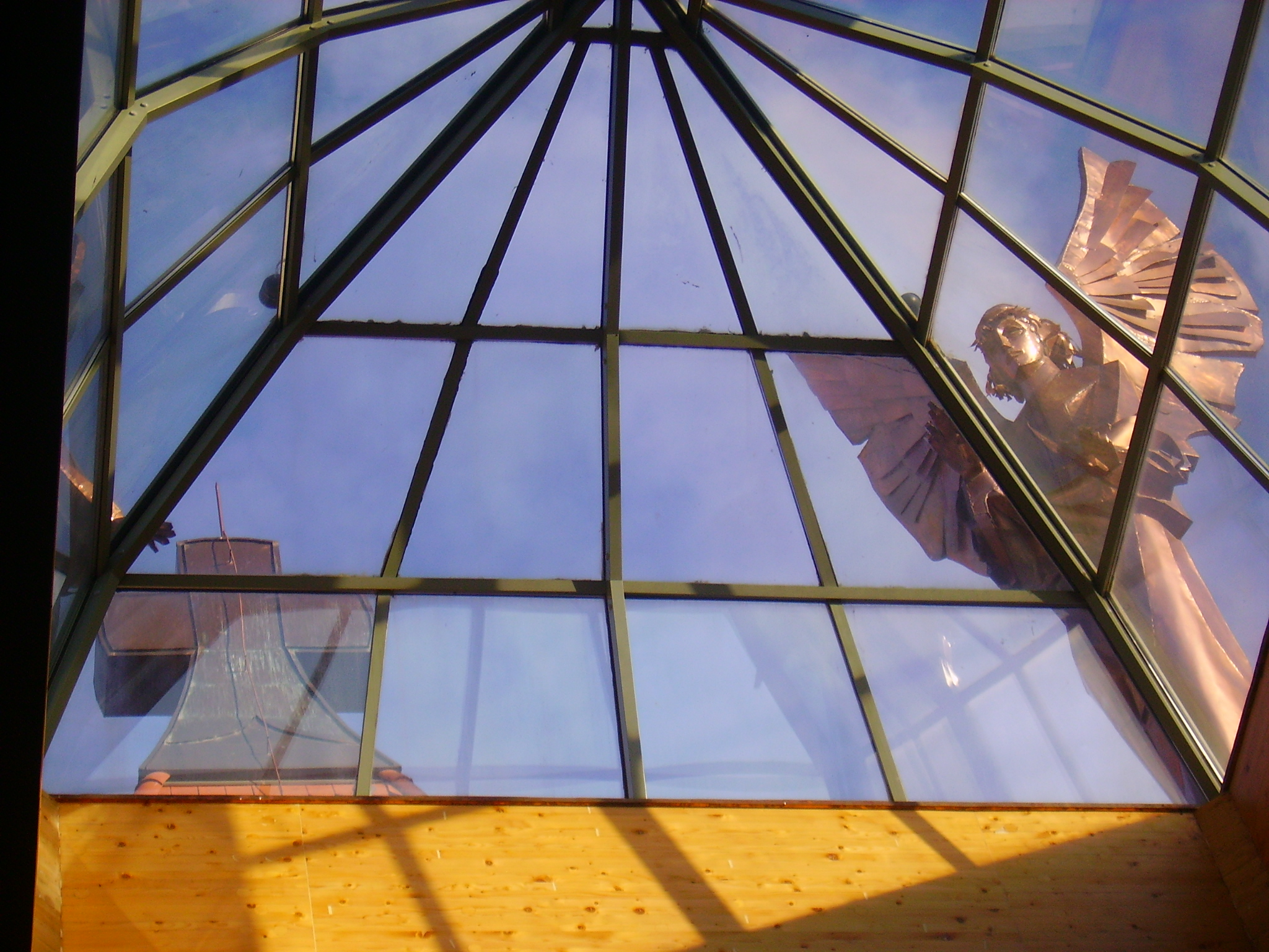 Roman Catholic Church in Csikszereda (Miercurea Ciuc) in Transylvania, designed by Makovecz Imre and Bogos Ernő.